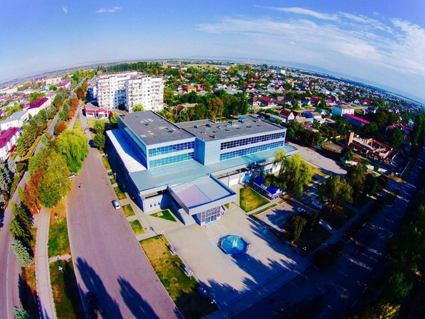 Terek city Адыгэбзэ: Тэрч къалэ